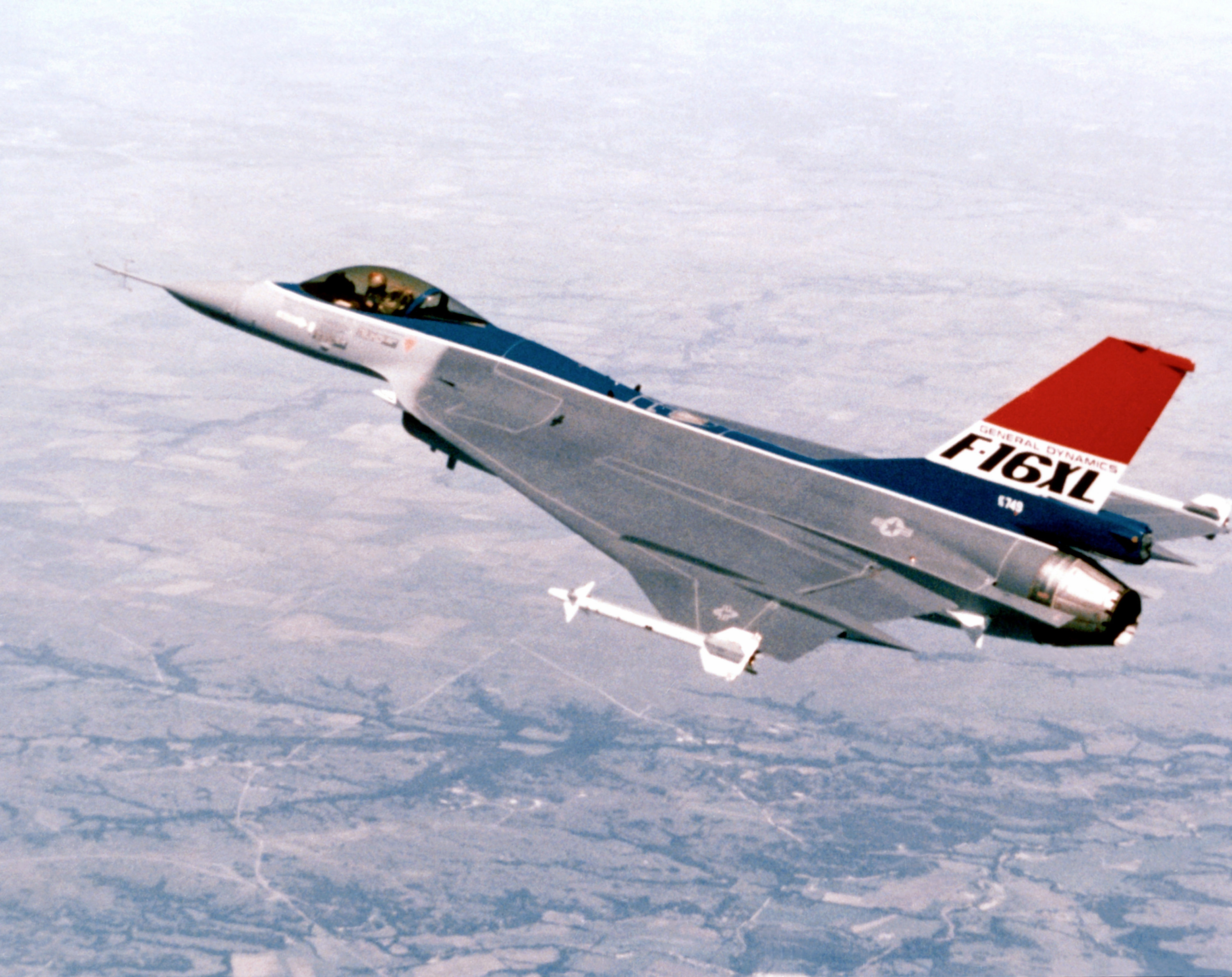 An air-to-air left side view of the prototype F-16XL Fighting Falcon aircraft with AIM-9L Sidewinder missiles attached to its wings.